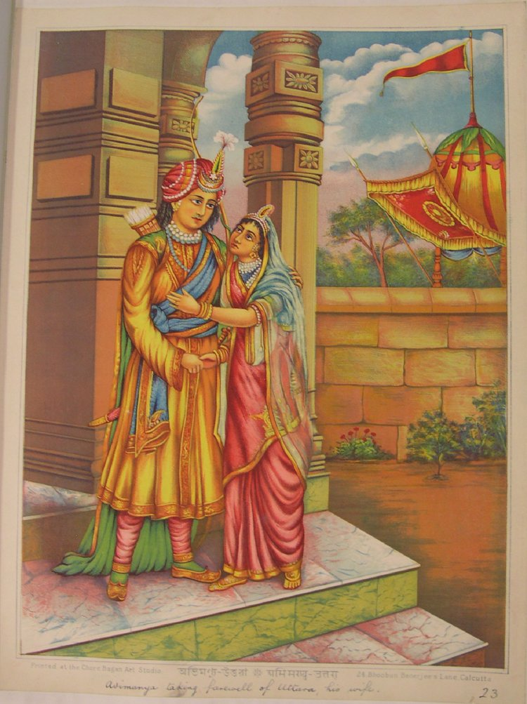 Album of popular prints mounted on cloth pages. Colour lithograph, lettered, inscribed and numbered 23. In this illustration of a narrative from the Mahabharata, Abhimanyu bids farewell to his wife Uttara. He is leaving for the Kurukshetra war.